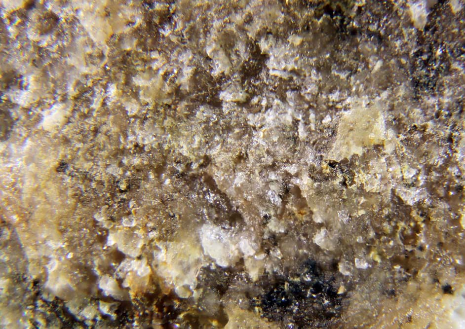 Pale brown crystals of the extremely rare mineral vyuntspakhkite-(Y) from one of the only three localities known worldwide: Evans Lou Mine, Lac Saint Pierre, Québec, Canada. Vyuntspakhkite-(Y) is a silicate of ittrium and ytterbium, and is one of the only 5 mineral species (from more than 5500 species known) that contain the chemical element ytterbium (source MINDAT), so it is a real chemical rarity.